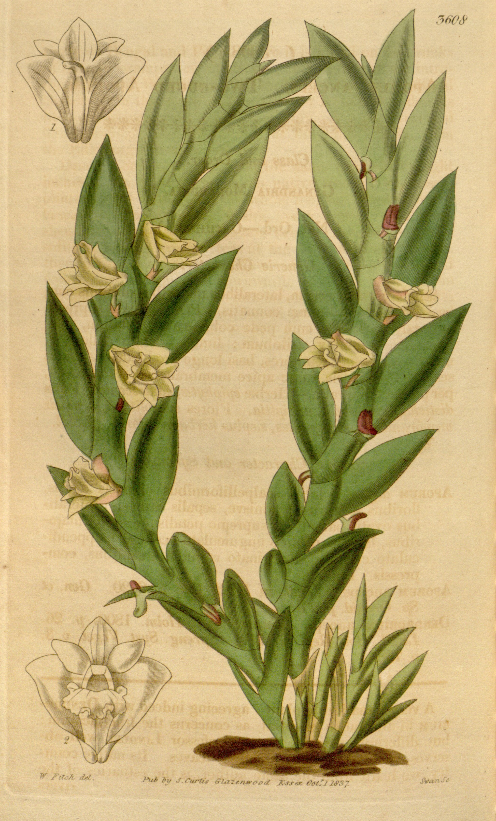 Illustration of Dendrobium anceps (as syn. Aporum anceps)